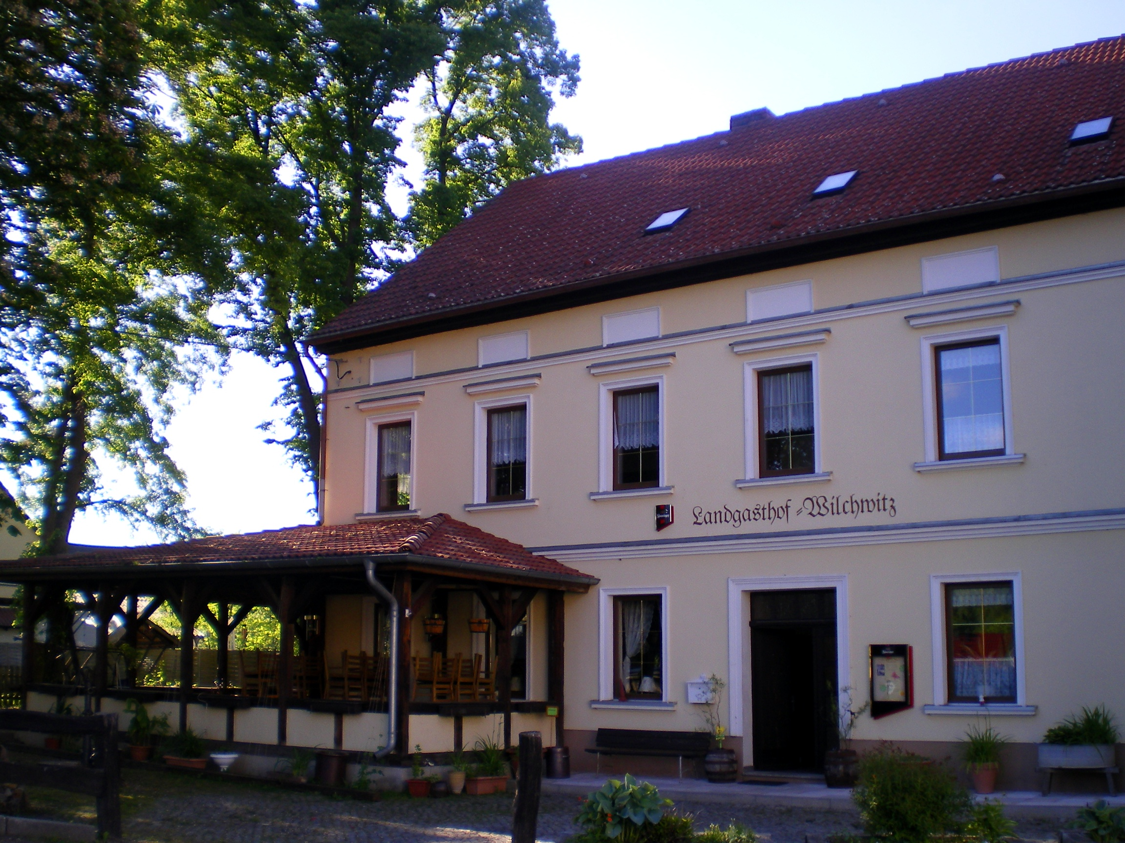 Guesthouse in Nobitz-Wilchwitz near Altenburg/Thuringia